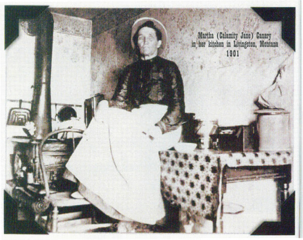 Martha (Calamity Jane) Canary in her kitchen in Livington, Montana, 1901. From Down the Yellowstone", Louis R. Freeman, pub. 1922